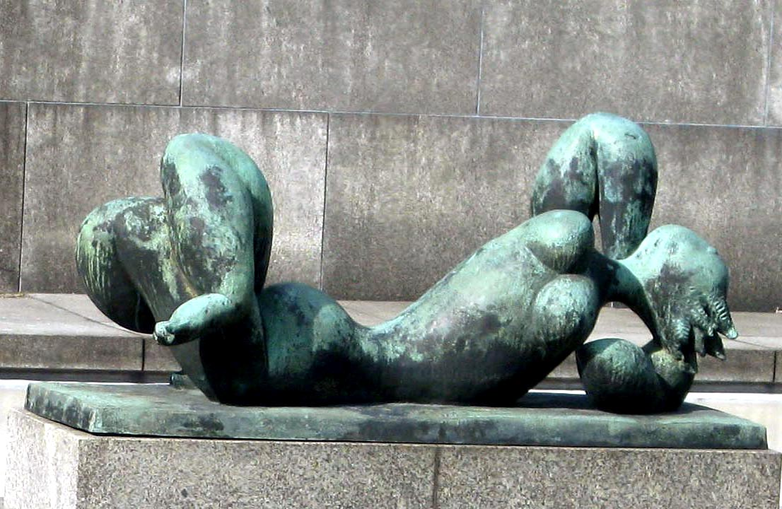 Waldemar Grzimek, Träumende, 1964 and Henri Laurens, Der Herbst, 1948 - Skulpturengarten der Nationalgalerie